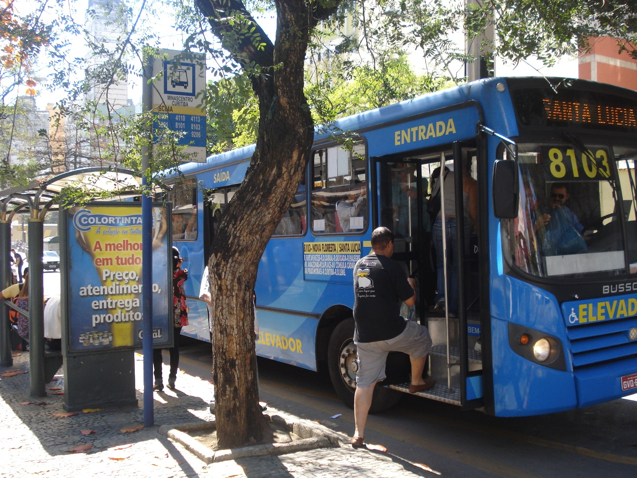 Bus station in MinasCentro, Rua Curitiba, Belo Horizonte, Brazil